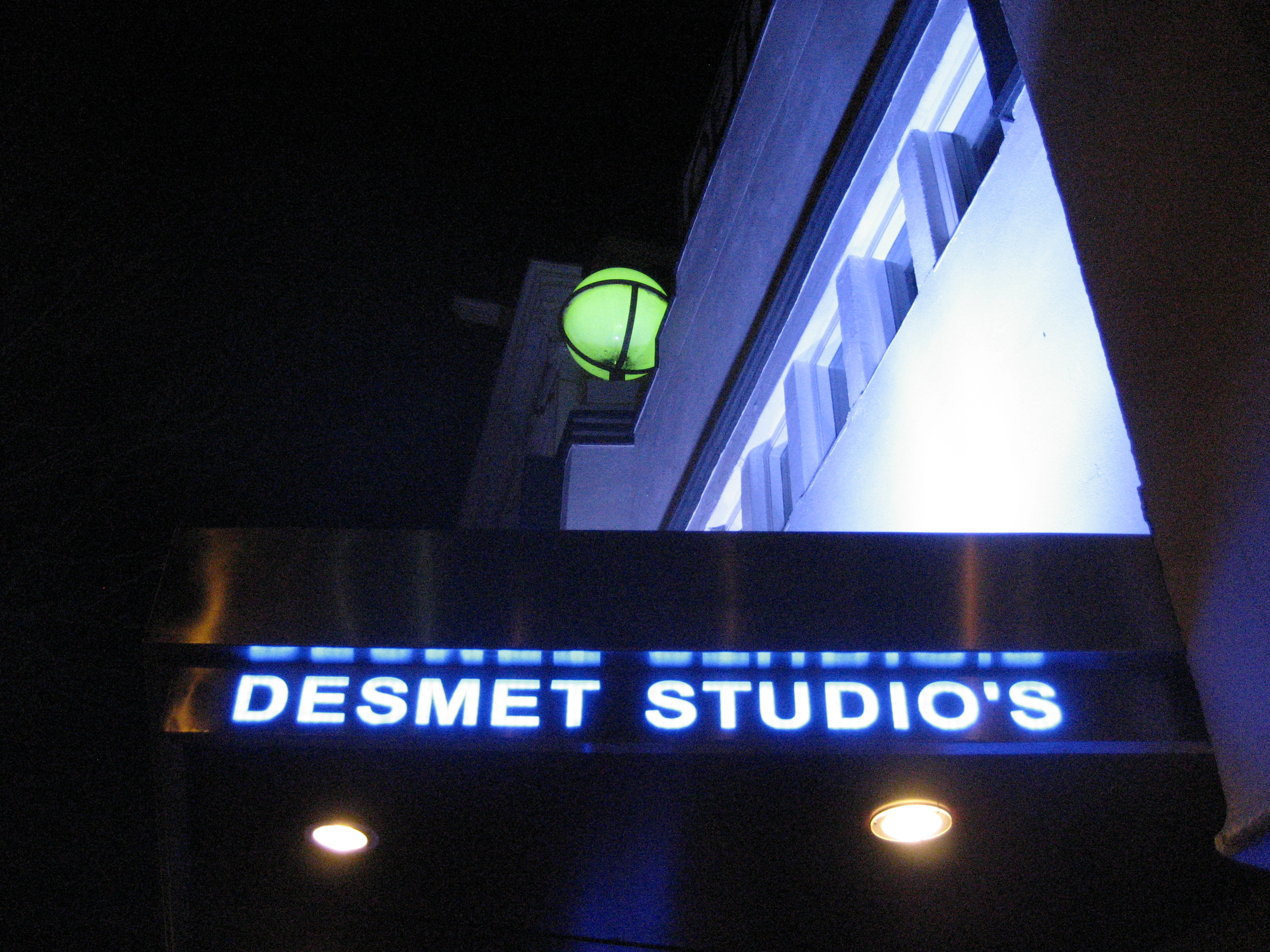 Desmet Studio's, Plantage Middelweg 4a, Amsterdam (The Netherlands)